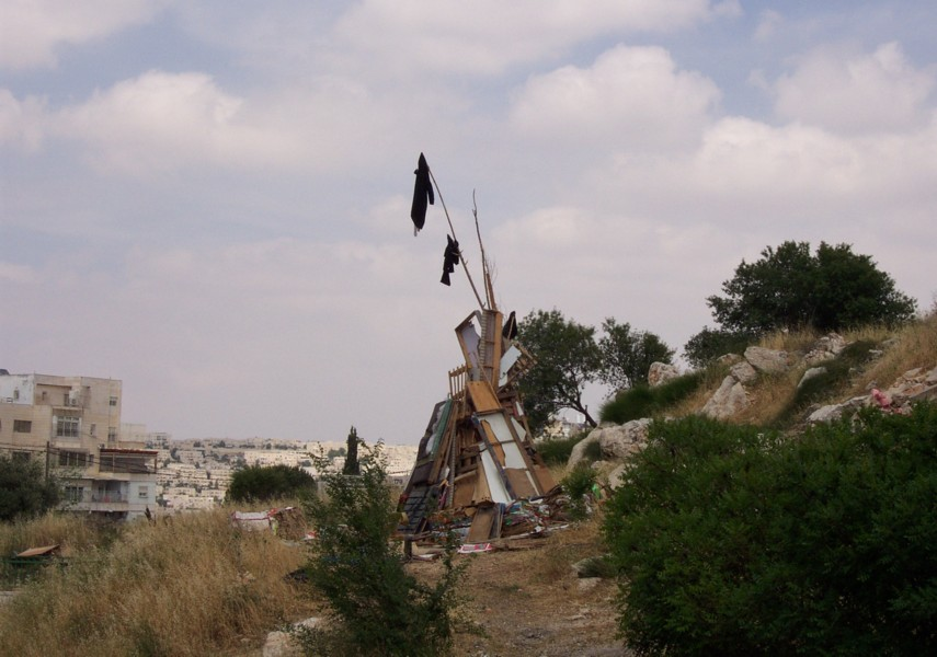 a wood pile ready for Lag Baomer bonfire, over a wadi in the back of the Sorotzkin Street in Jerusalem